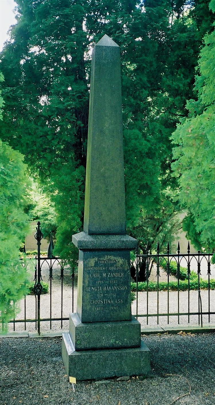 The tombstone of Carl Magnus Zander (1845-1923), Swedish professor of Latin at Lund University, at "Norra kyrkogården", Lund.